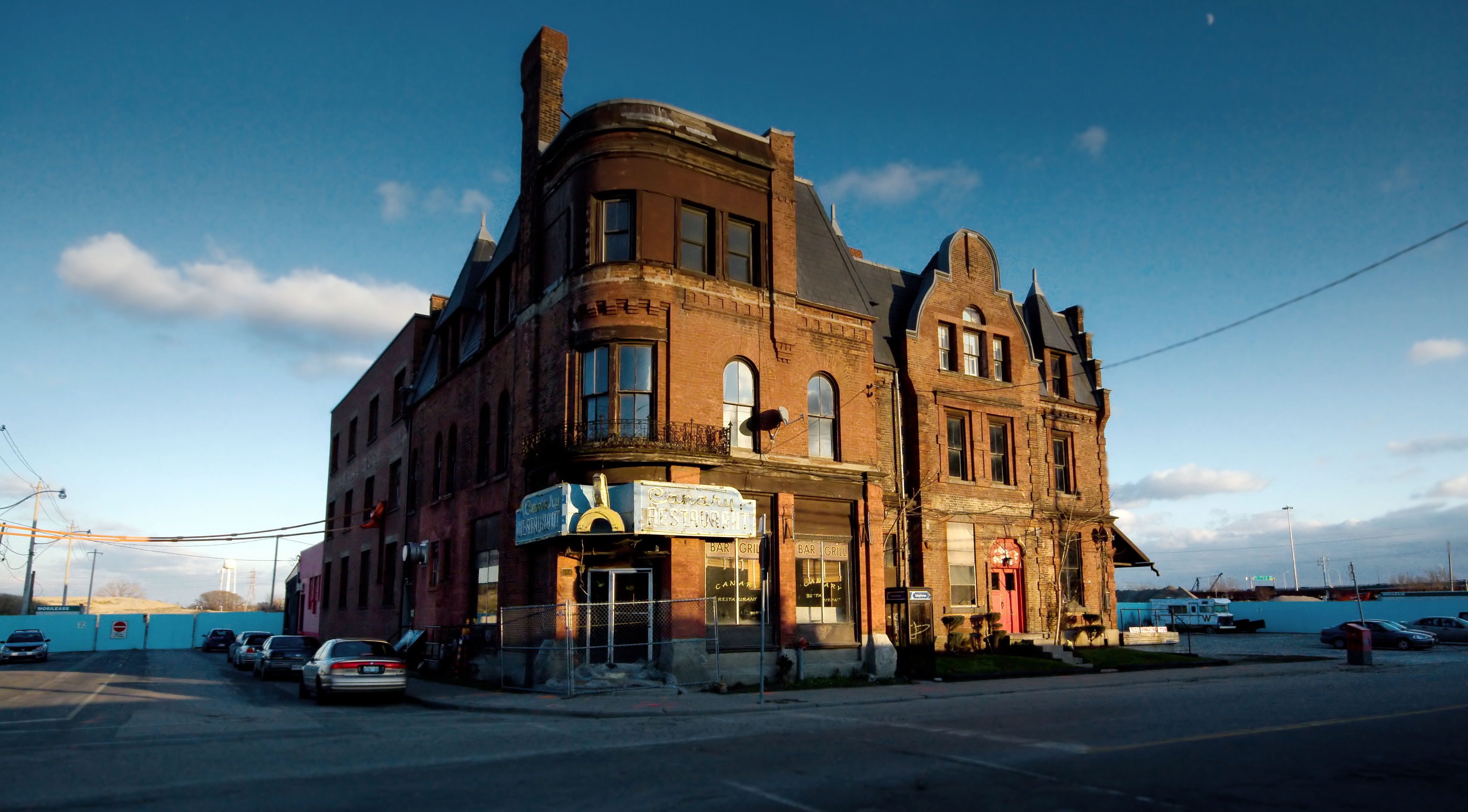 The building housing the former Canary diner at the intersection of Front and Cherry Streets in Toronto, Canada. The surrounding industrial buildings were mostly demolished for a failed urban renewal plan in the 1980s. At the time of this photograph, surrounding sites were hoarded in preparation of a new waterfront redevelopment plan that will result in the construction of the West Don Lands neighbourhood. The building was first constructed in 1859 (Joseph Sheard, architect), with additions built in 1869 (William Irving, architect), 1890 (David Roberts Jr., architect) and 1891 (Sproatt and Rolph, architects). The building originally served as a school, later the D'Arcy Hotel, and the Cherry Street Hotel commencing in 1906.